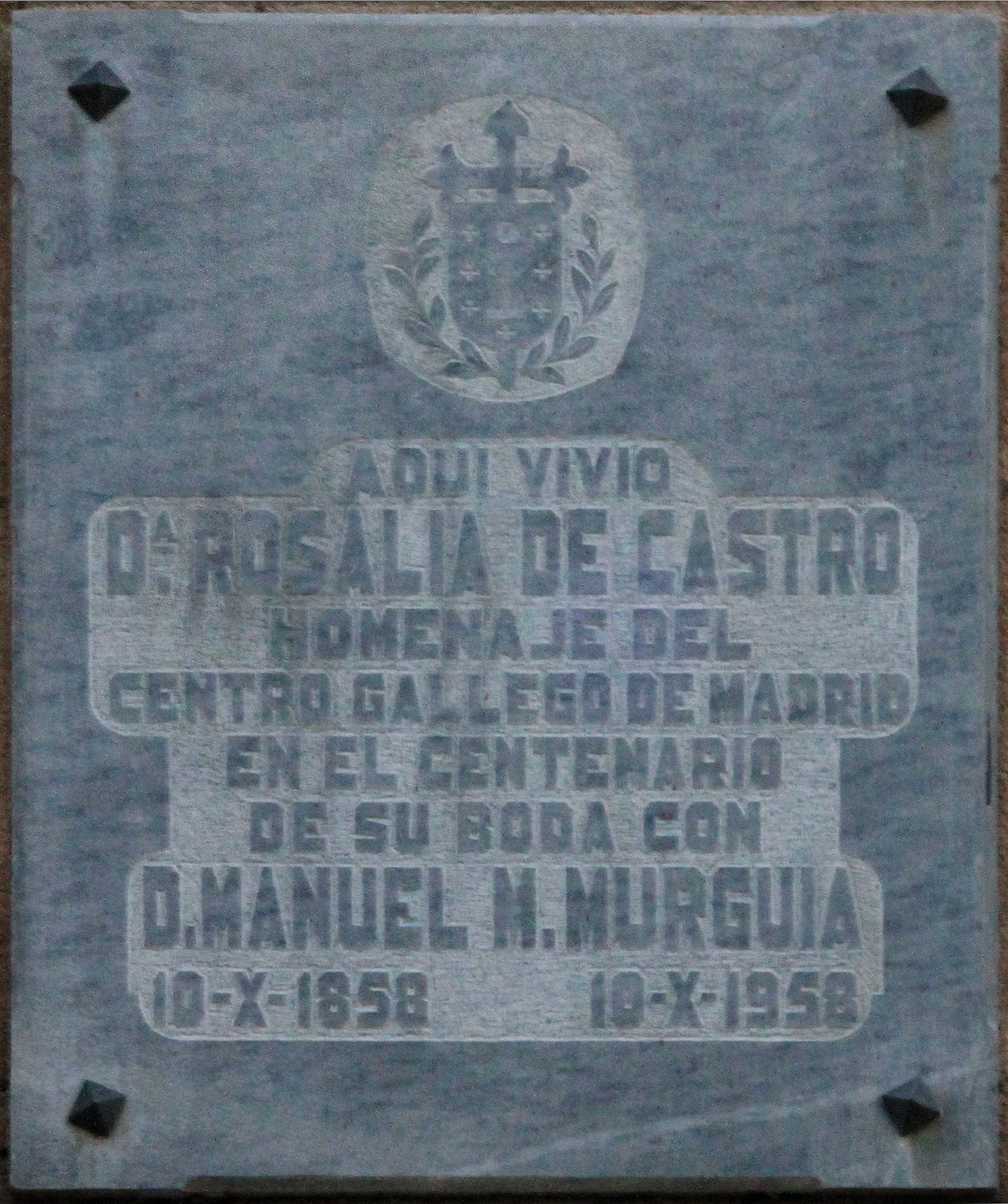 Commemorative plaque to Rosalía de Castro at 13 Calle de la Ballesta (street) in Madrid (Spain), where she lived from 1856 to 1858. Unveiled in 1958.